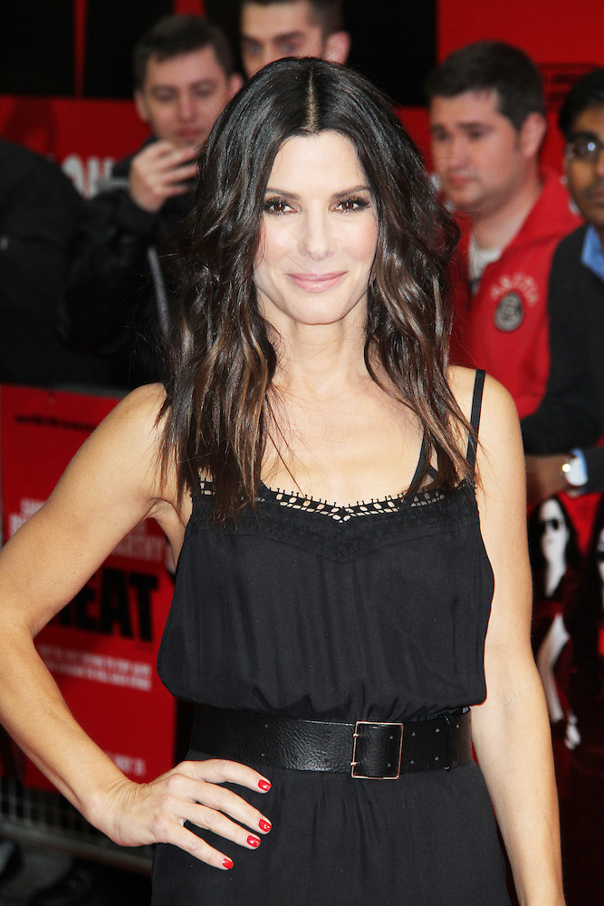 American actress Sandra Bullock at the UK film gala screening of The Heat, Curzon Mayfair Cinema, London, England on 13 June 2013.